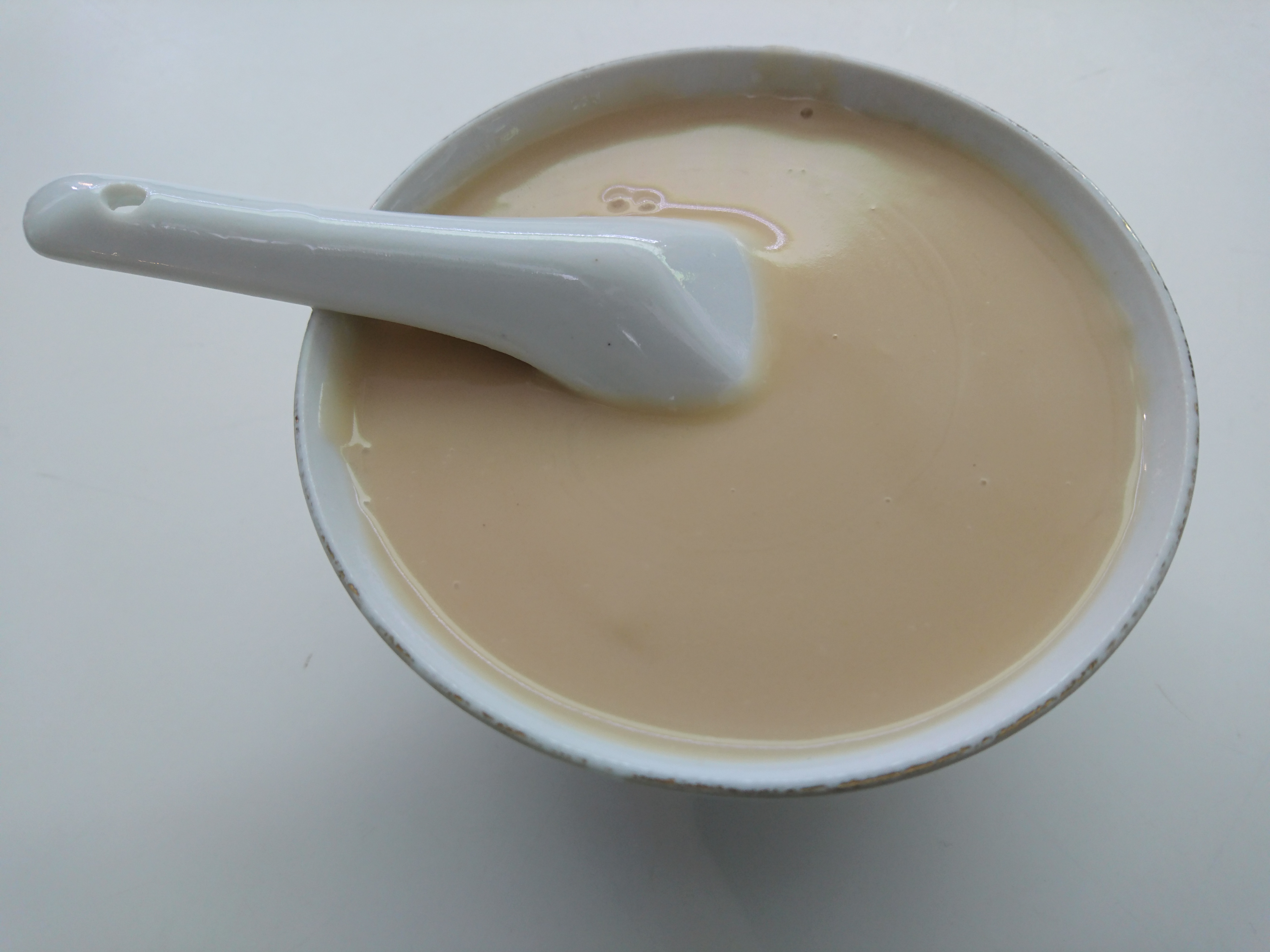 Cashew Paste Dessert